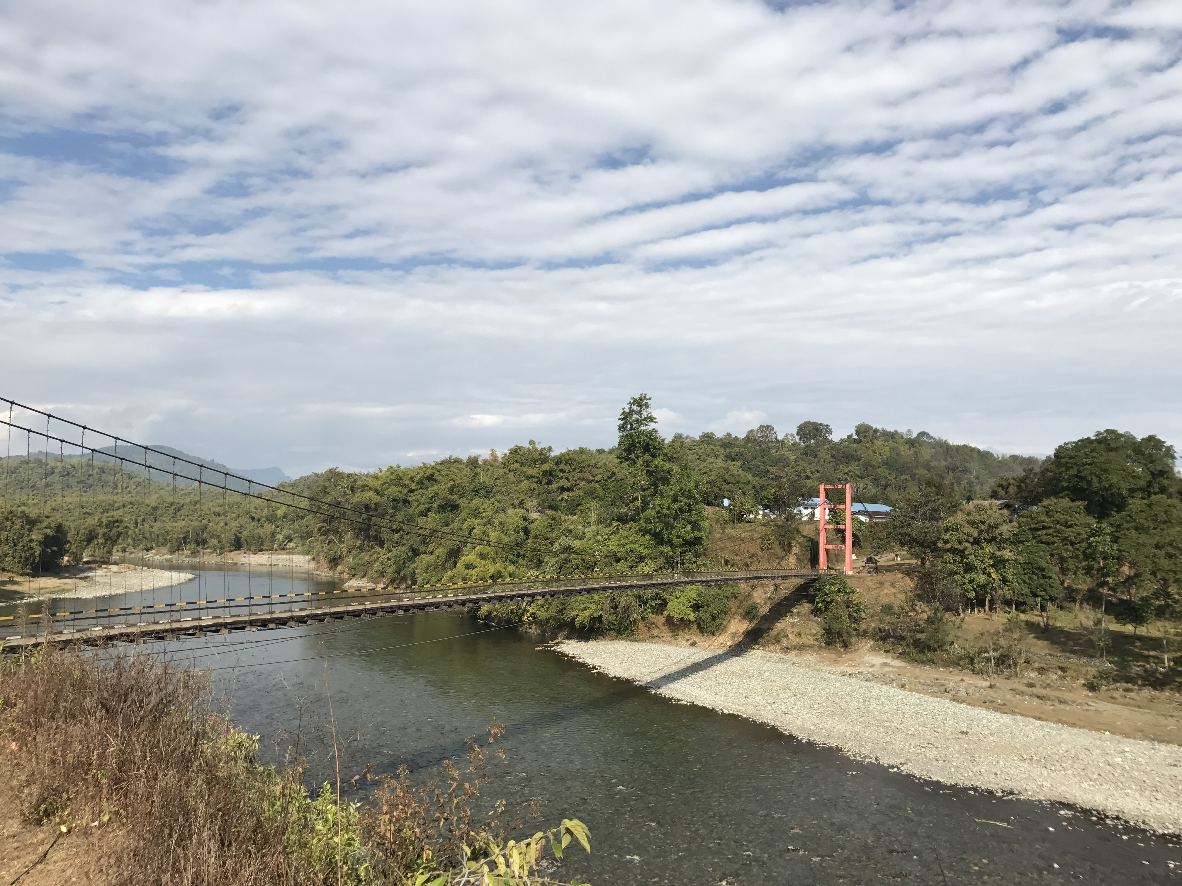 Mulashidi